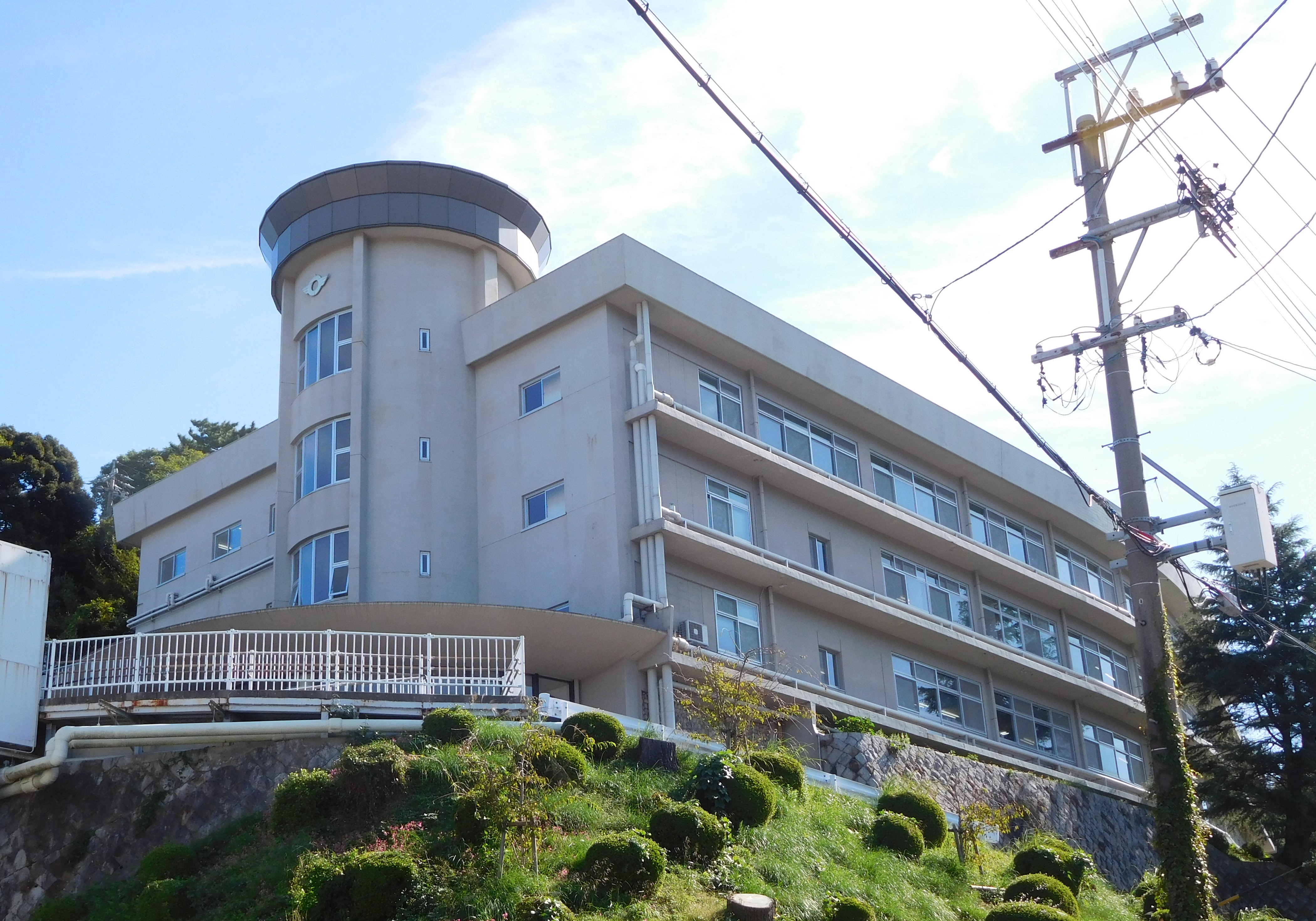 This is a city hall building in Japan.